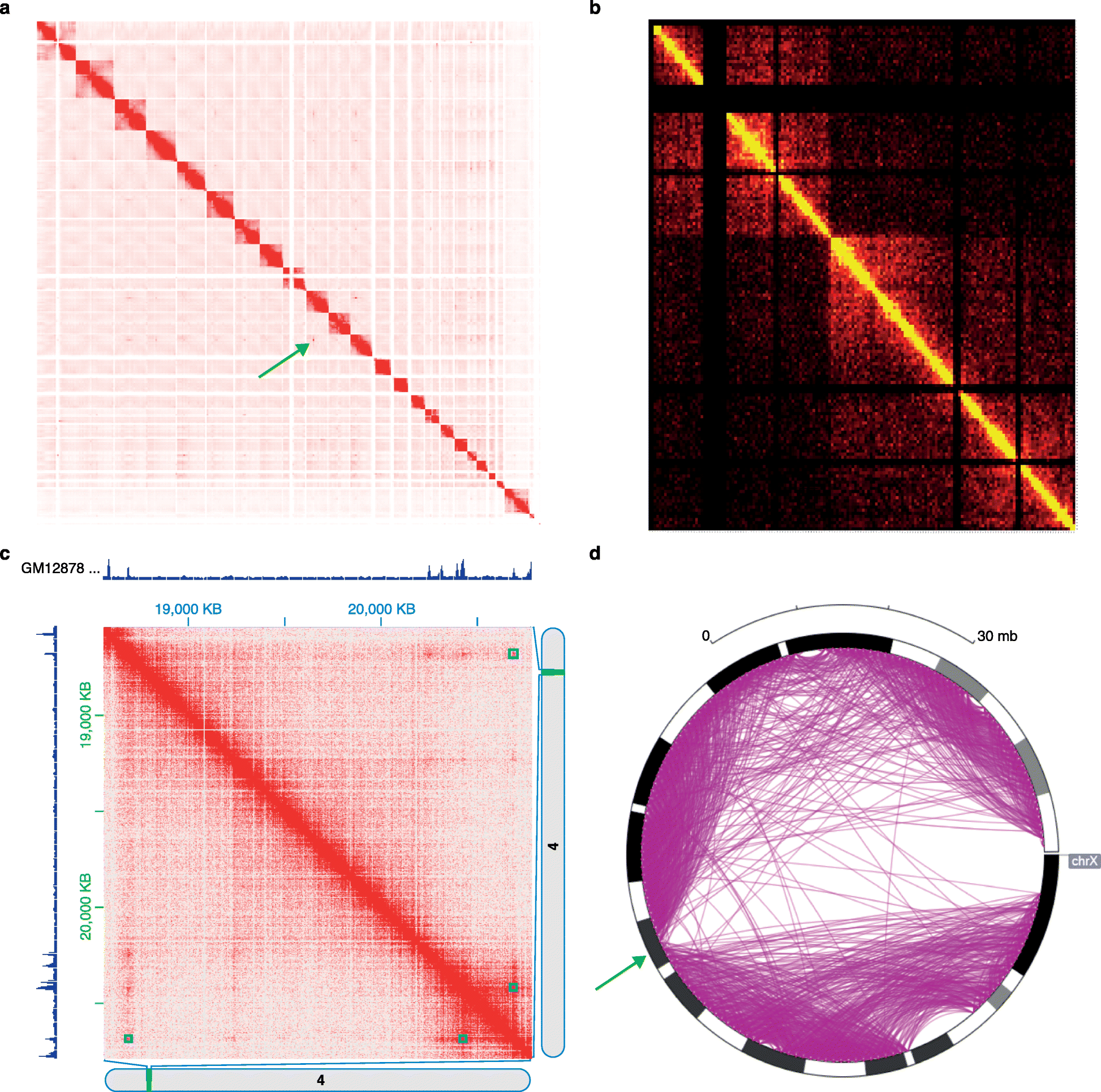 Heat map and circular plot visualization of Hi-C data. a Hi-C interactions among all chromosomes from G401 human kidney cells, as plotted by my5C. The green arrow points to aberrant interchromosomal signal in the Hi-C matrix, possibly caused by a rearragement event. b Heat map visualization illustrating the bipartite structure of the mouse X chromosome, as plotted by Hi-Browse, using in-situ DNase Hi-C data. c Heat map visualization of a 3 Mbp locus (chr4:18000000-21000000) reveals the presence of loops that coincide with CTCF binding sites, validated by CTCF peaks shown on the top and left of the heat map. Computationally annotated loops are displayed as blue squares in the heat map. This heat map was produced by Juicebox, using in-situ Hi-C data from the GM12878 cell line. d Circular plot of the bipartite mouse X chromosome, which shows a striking depletion of arcs between the two mega-domains, the locus that separates the mega-domains is shown by a green arrow. The plot was generated by the Epigenome Browser